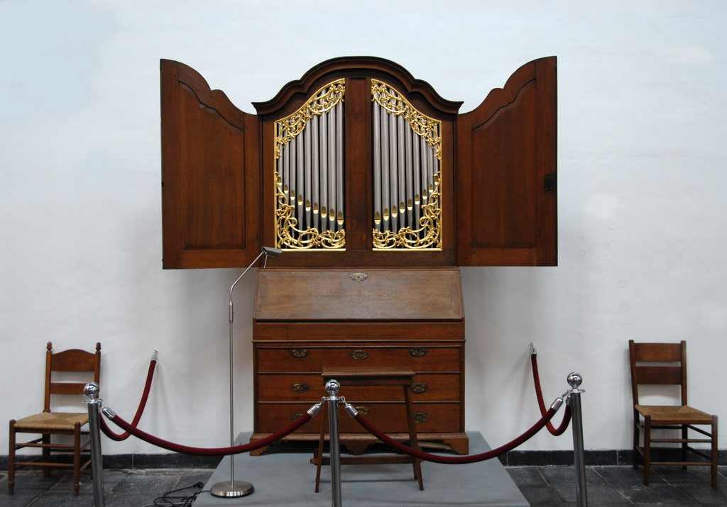 Cabinet organ nearby the mausoleum of Piet Hein is probably built by Joachim Hess in the second half of the 18th century.